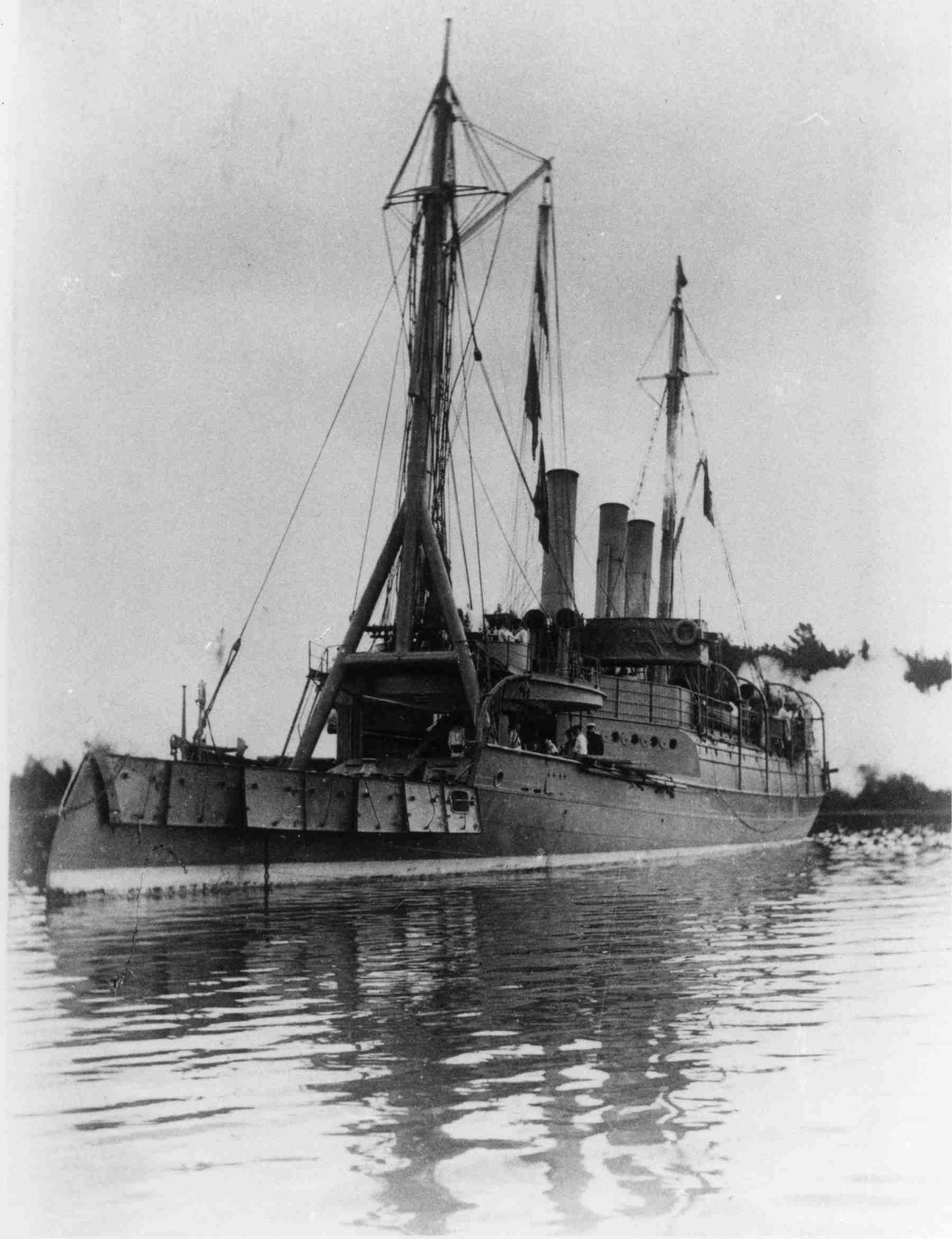 Swedish gunboat HMS Disa, 1892. From Curt S. Ohlssons collection's.